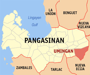 Map of Pangasinan showing the location of Umingan